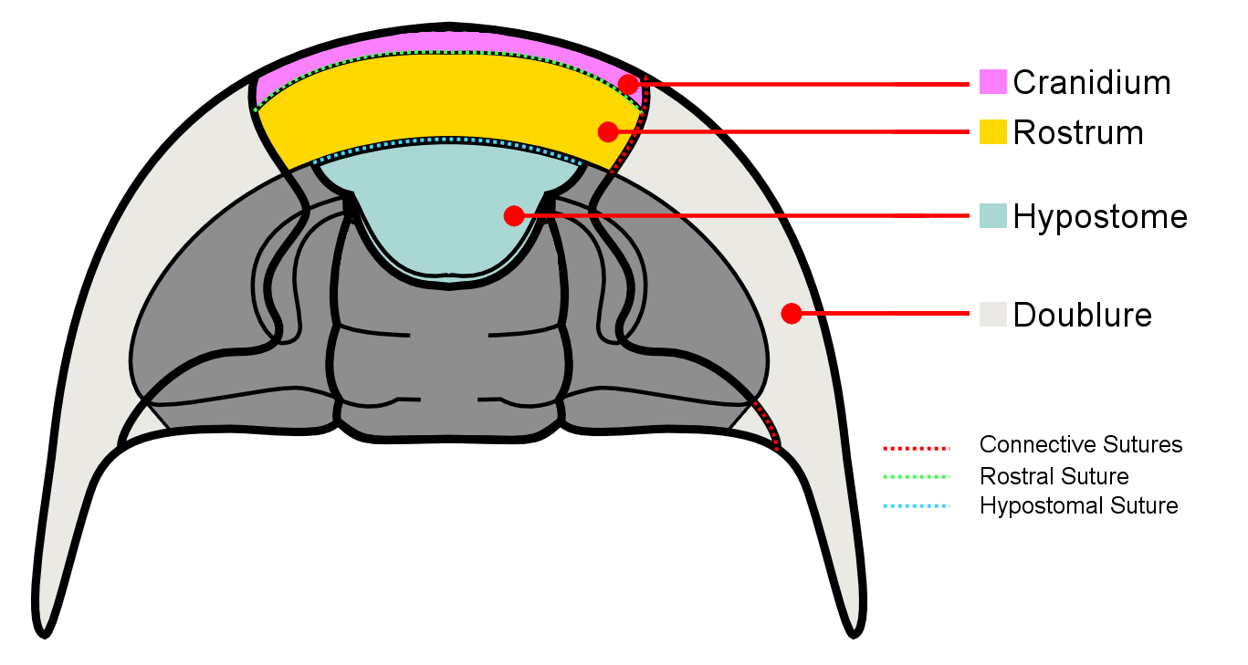 Diagram showing the three major sections of a trilobite #Cephalon #Thorax #Pygidium